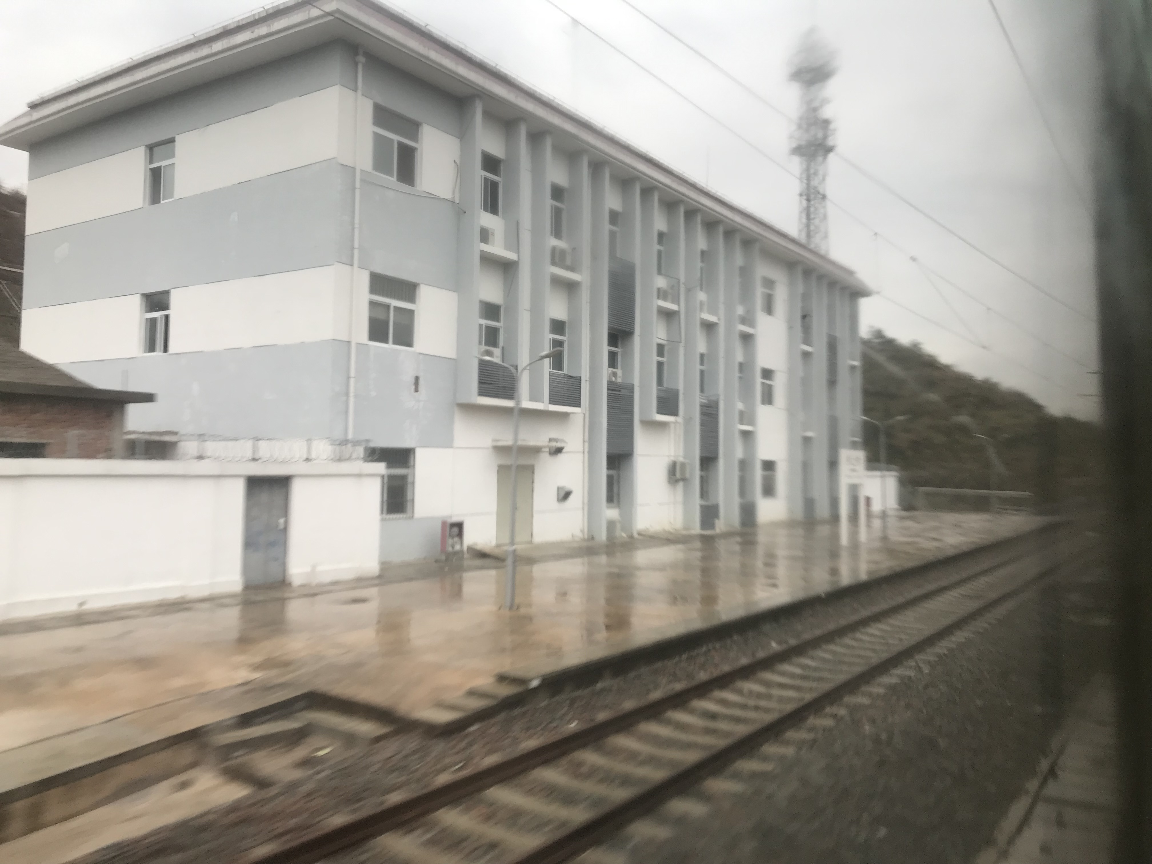 201901 Station Building of Qiaoshangcun